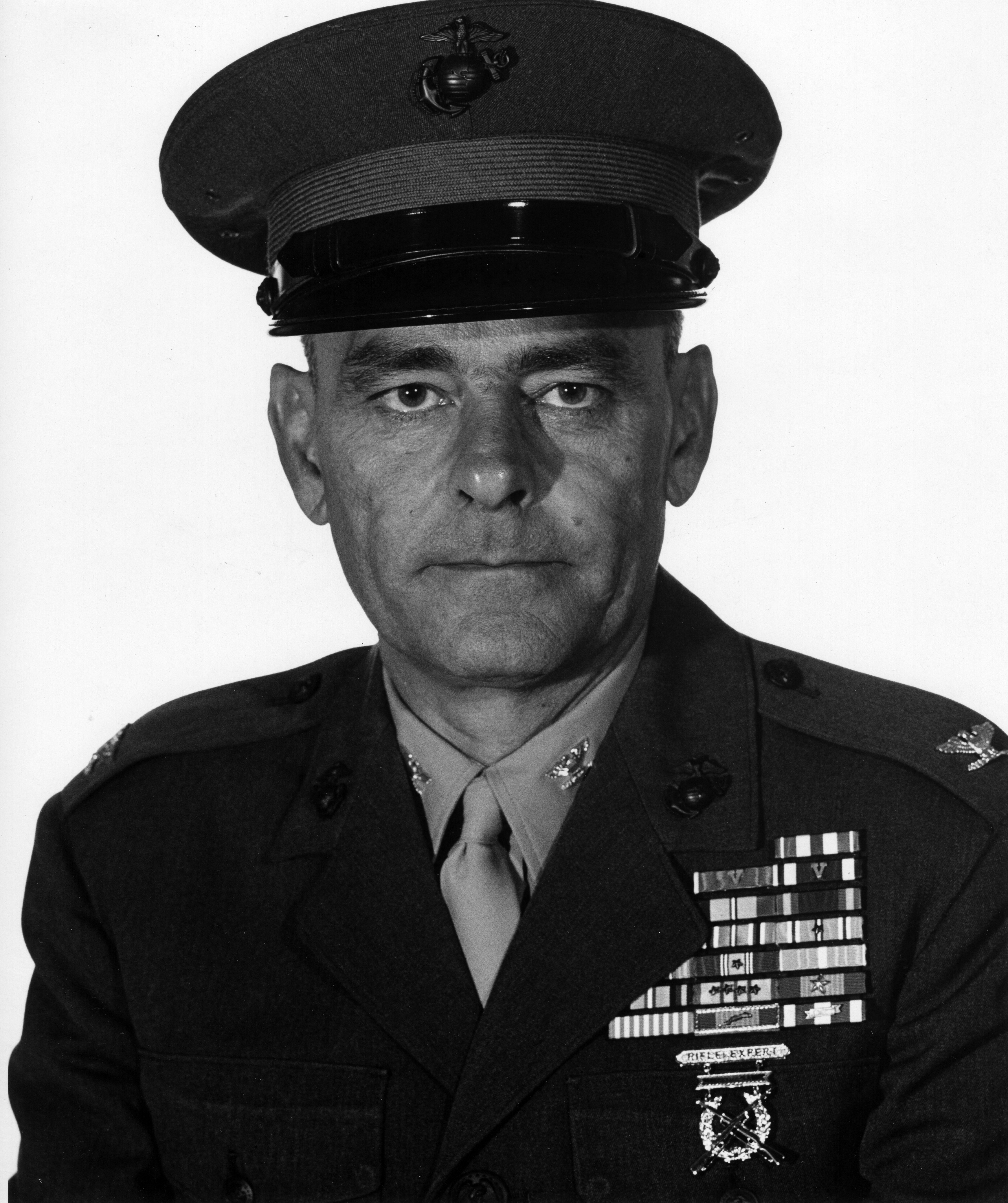 Official portrait of George W. Smith as Colonel during his tenure as Director, 4th Reserve Marine Corps District.